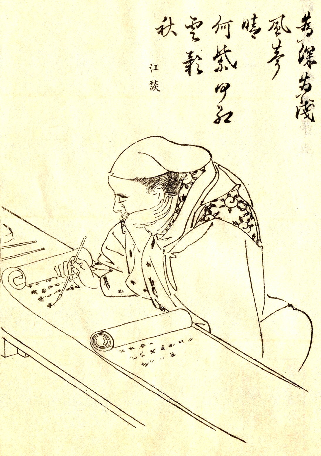 Ōe no Mochitoki(大江以言) was a japanese court noble and scholar in Heian period.